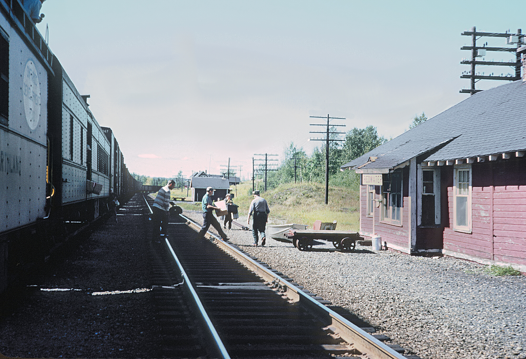 ONT unboarding passengers, baggage, and supplies from Mixed train 411 at Redwater, Ont.